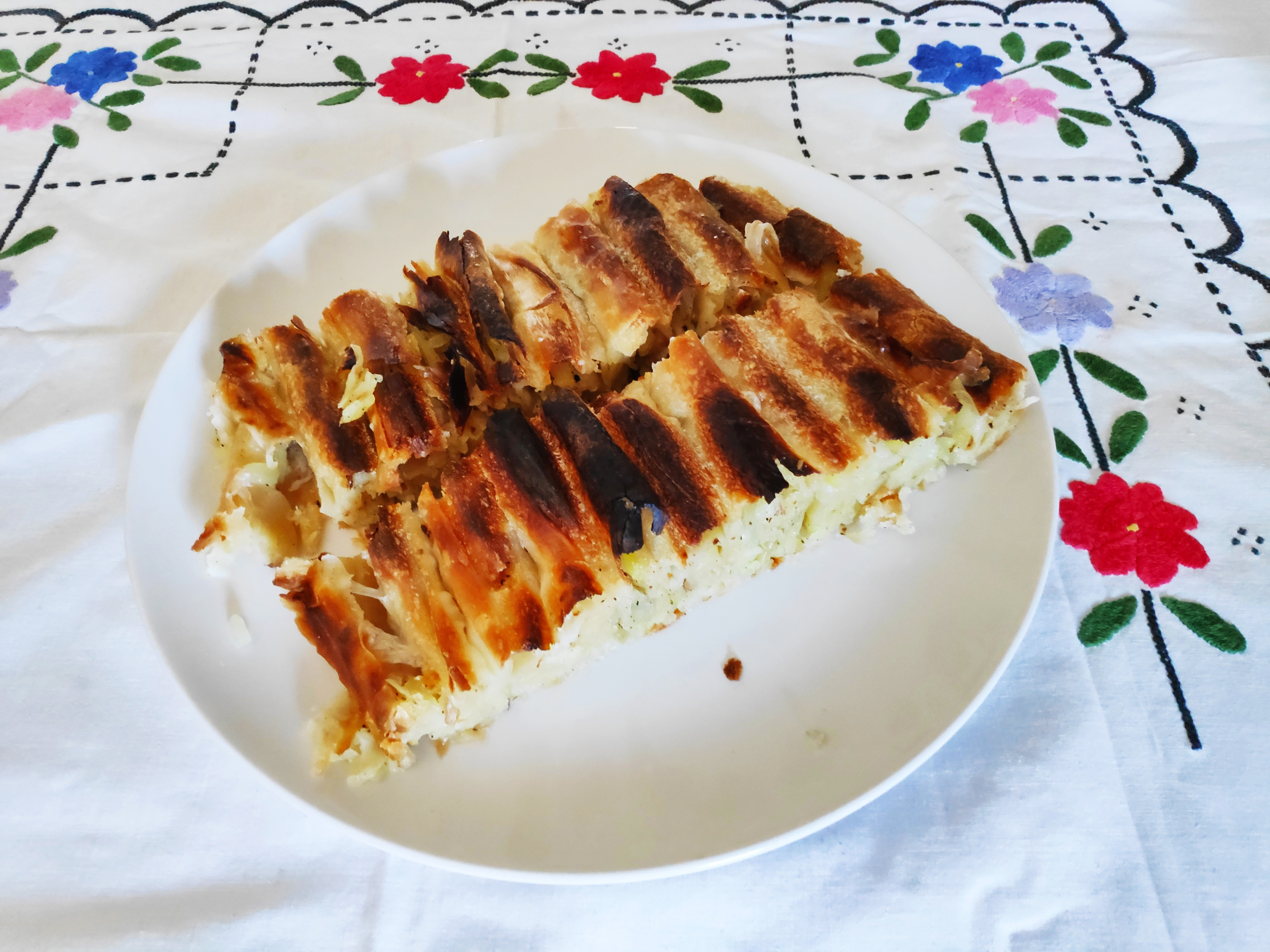 Potato pie (Serbian cuisine)